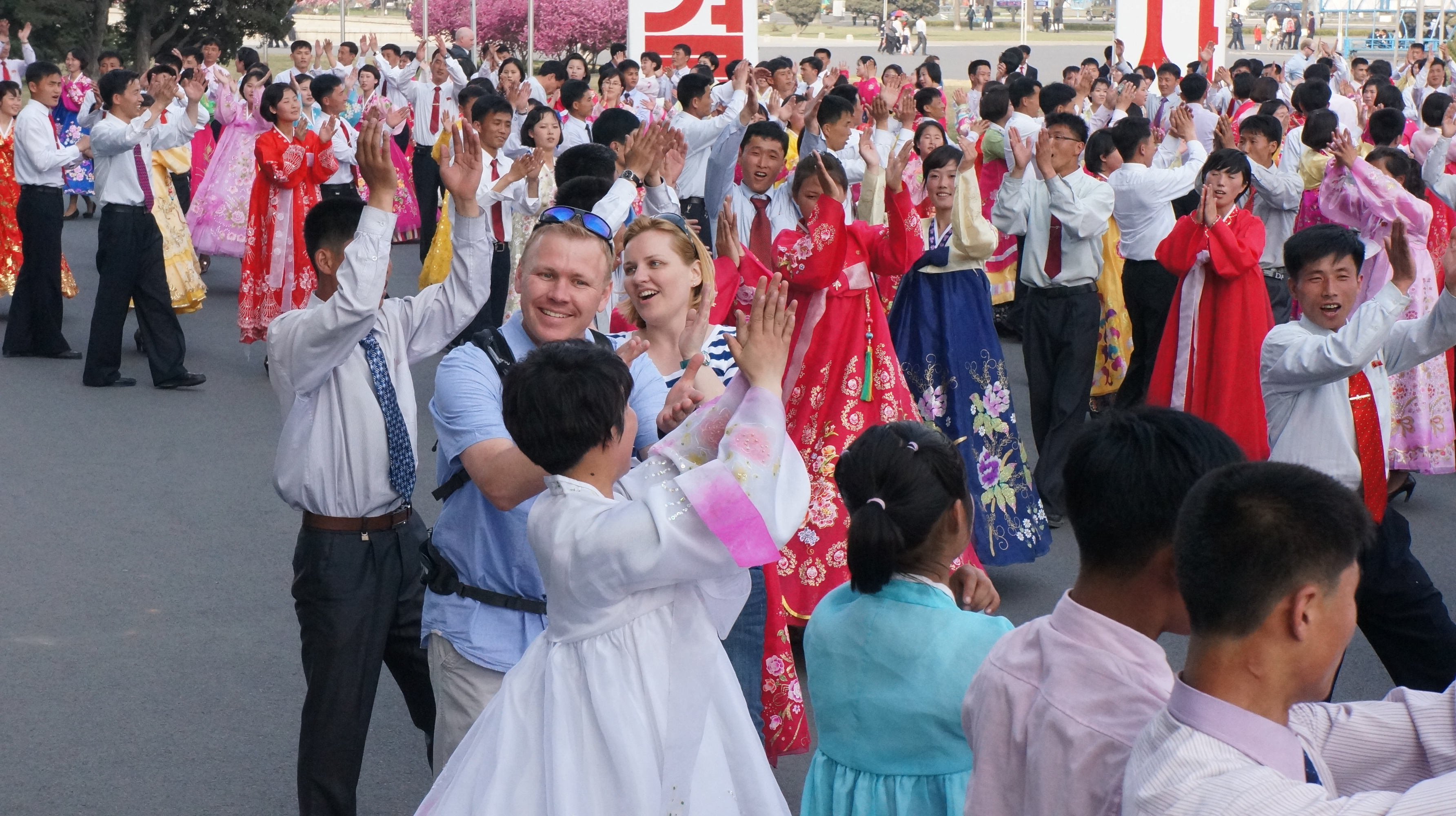 Kim Il Sung Birthday Celebrations April 15, 2014